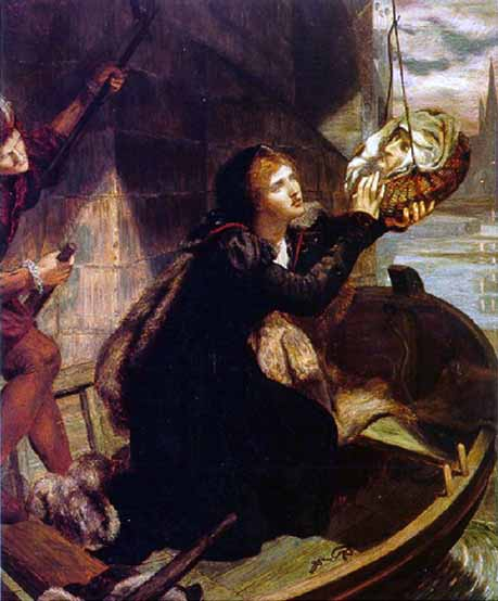 Margaret Roper rescues her father's severed head from being thrown away.